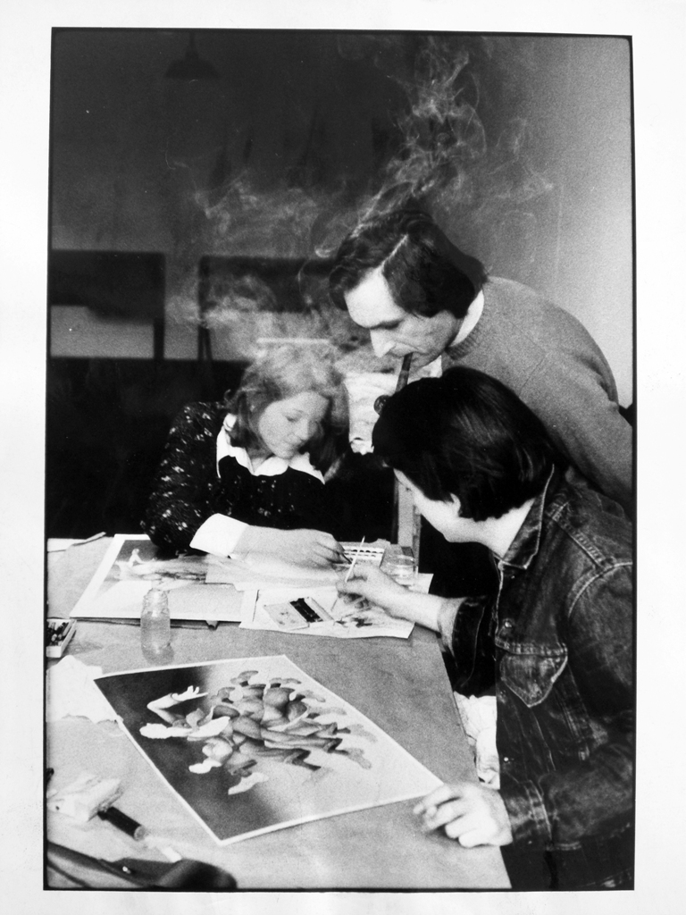 Giovannini Giannini professor to the ENSAD